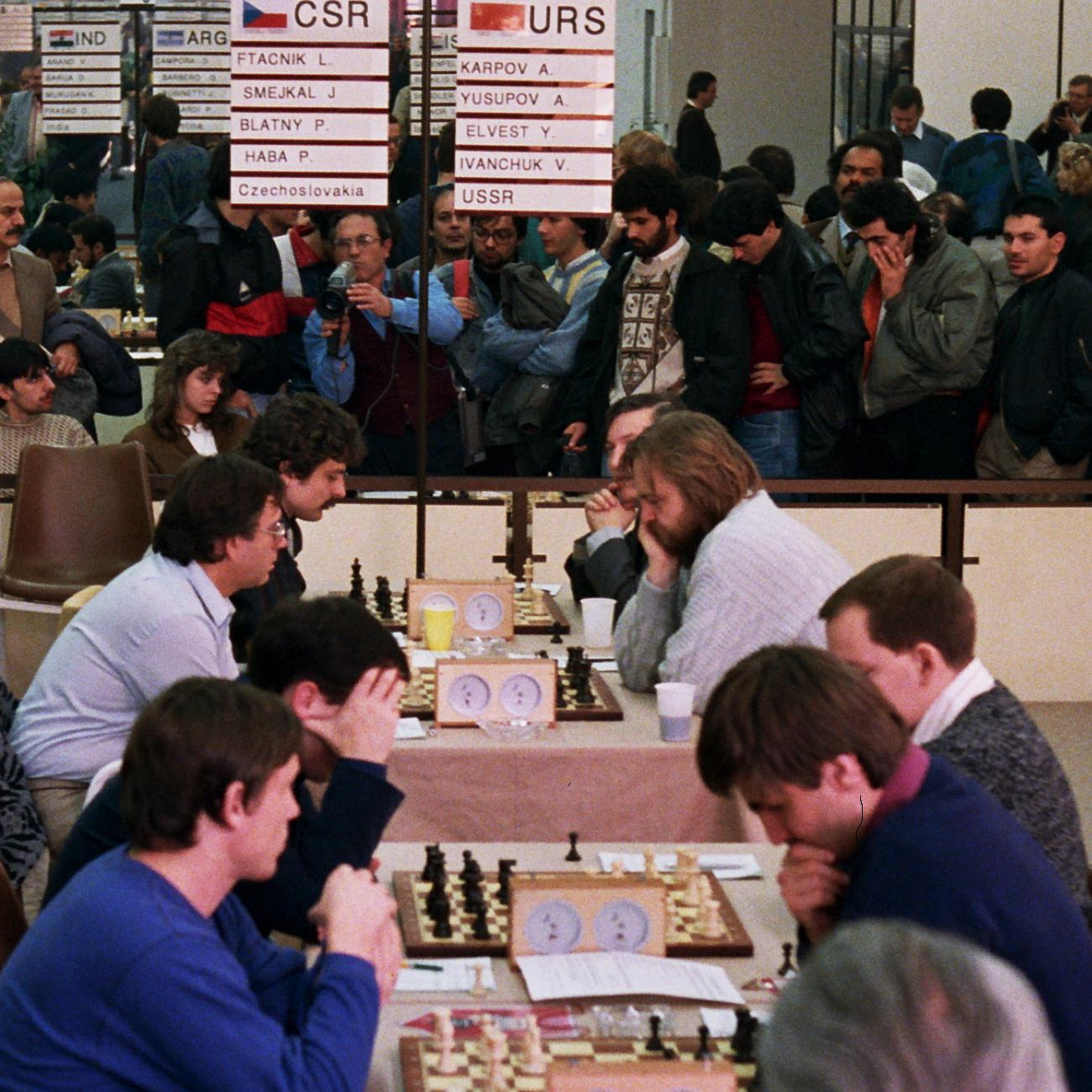 CSR - URS, Chess Olympiad 1988 in Thessaloniki, Photographer Gerhard Hund.